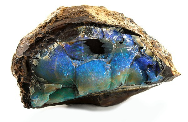 Opal (Var.: Precious Opal) Locality: Queensland, Australia (Locality at ) A rich seam of wonderfully irridescent opal, flashing gold and blue fire, encased in matrix! This is a very large and striking opal specimen. The layer of precious opal is a good 0.5 cm thick, and under it is a thick layer of common opal. Its from the central Queensland opalfield, perhaps the Quilpie or Yowah area. How do we know? Thanks to a friend over there who provided the following details: The matrix is an brown iron-stone or jasper-like rock, which is characteristic of the Queensland stuff. Coober Pedy opal is always hosted in white to greyish clay rich sandstone (usually quite fragile), kaolin or very rarely pale white/grey cherts. You just do not get those brown jasperoid nodules in Coober Pedy. In the Yowah area of Queenland that they are called Yowah Nuts and they are more like a septarian nodule with the cracks filled with precious opal. Also the opal has a characteristic blue background which you do not really get at Coober Pedy. 11.0 x 7.2 x 4.8cm